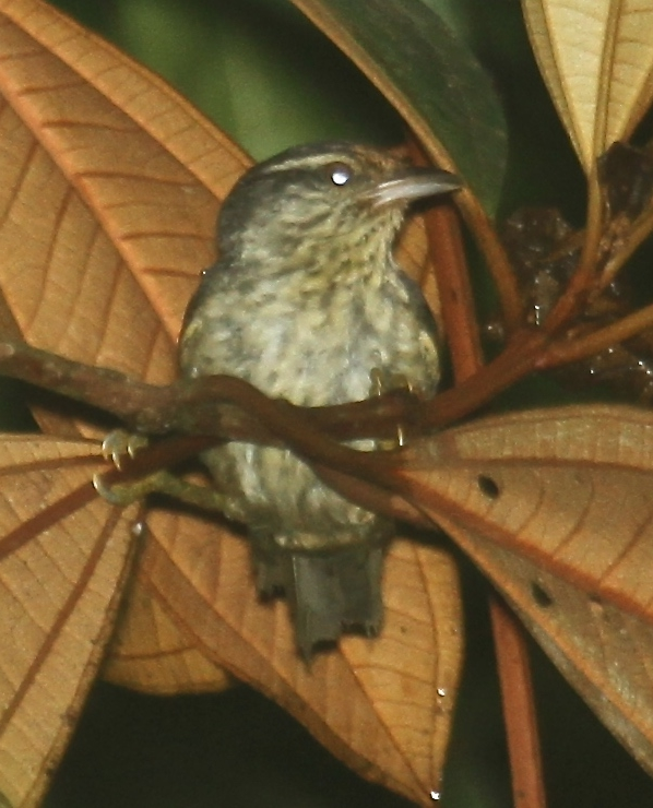 Podocarpus Reserve - Ecuador